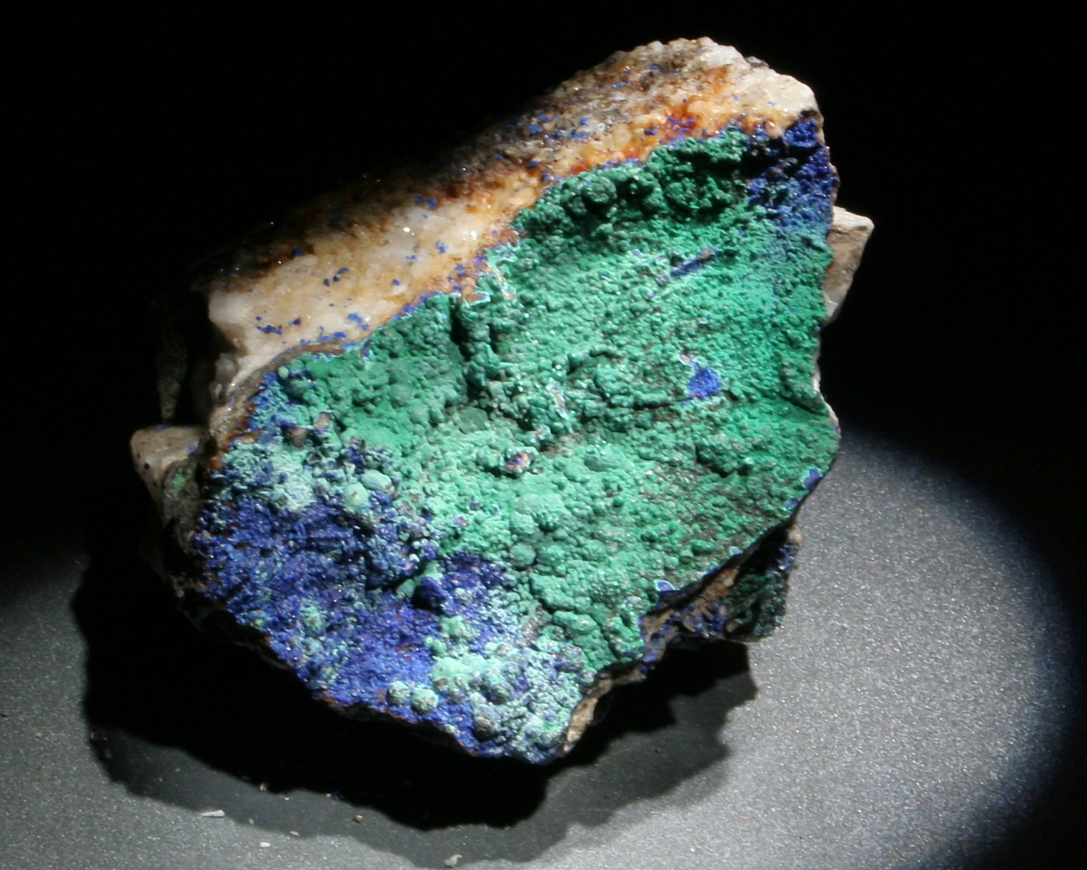 Malachite and Azurite